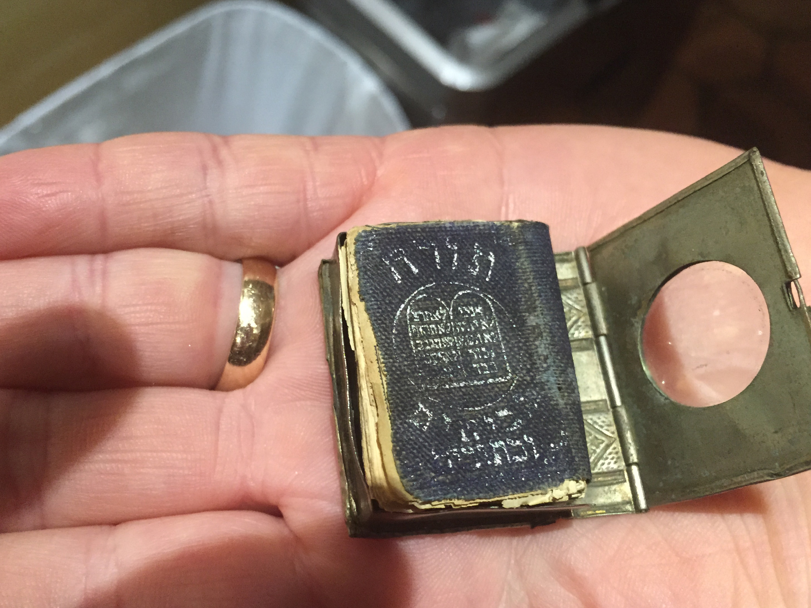 1895 Judaica miniature Bible--often carried by soldiers